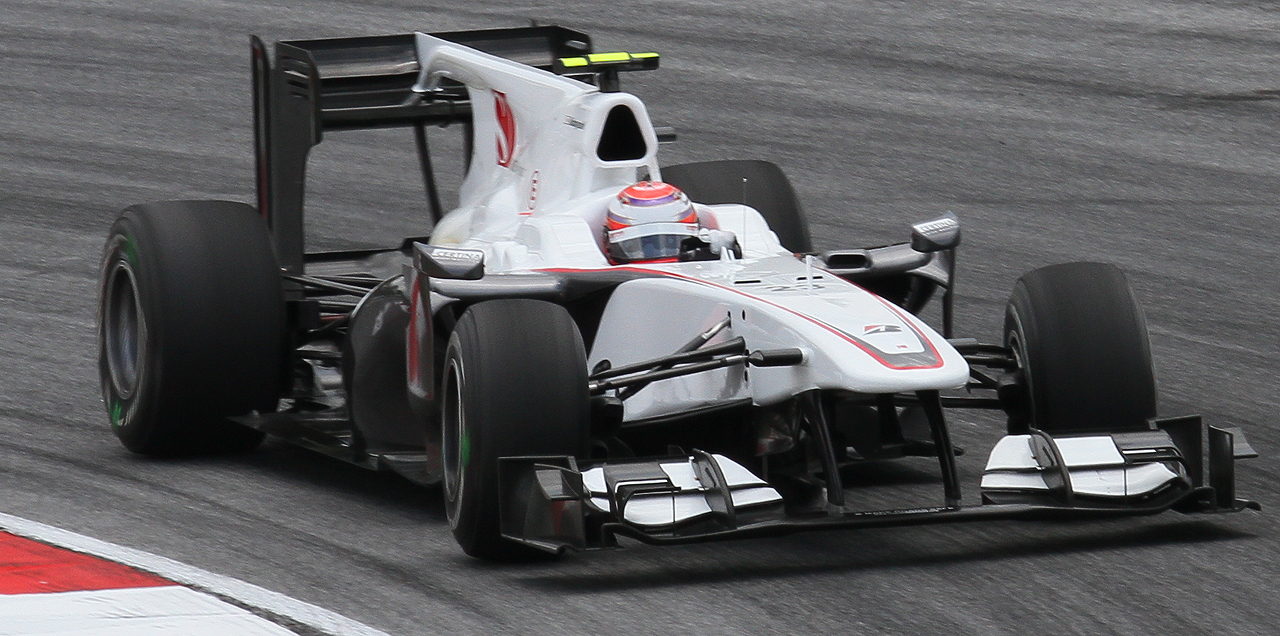 Formula One 2010 Rd.3 Malaysian GP: Kamui Kobayashi (BMW Sauber) during Saturday 3rd Free Practice session.